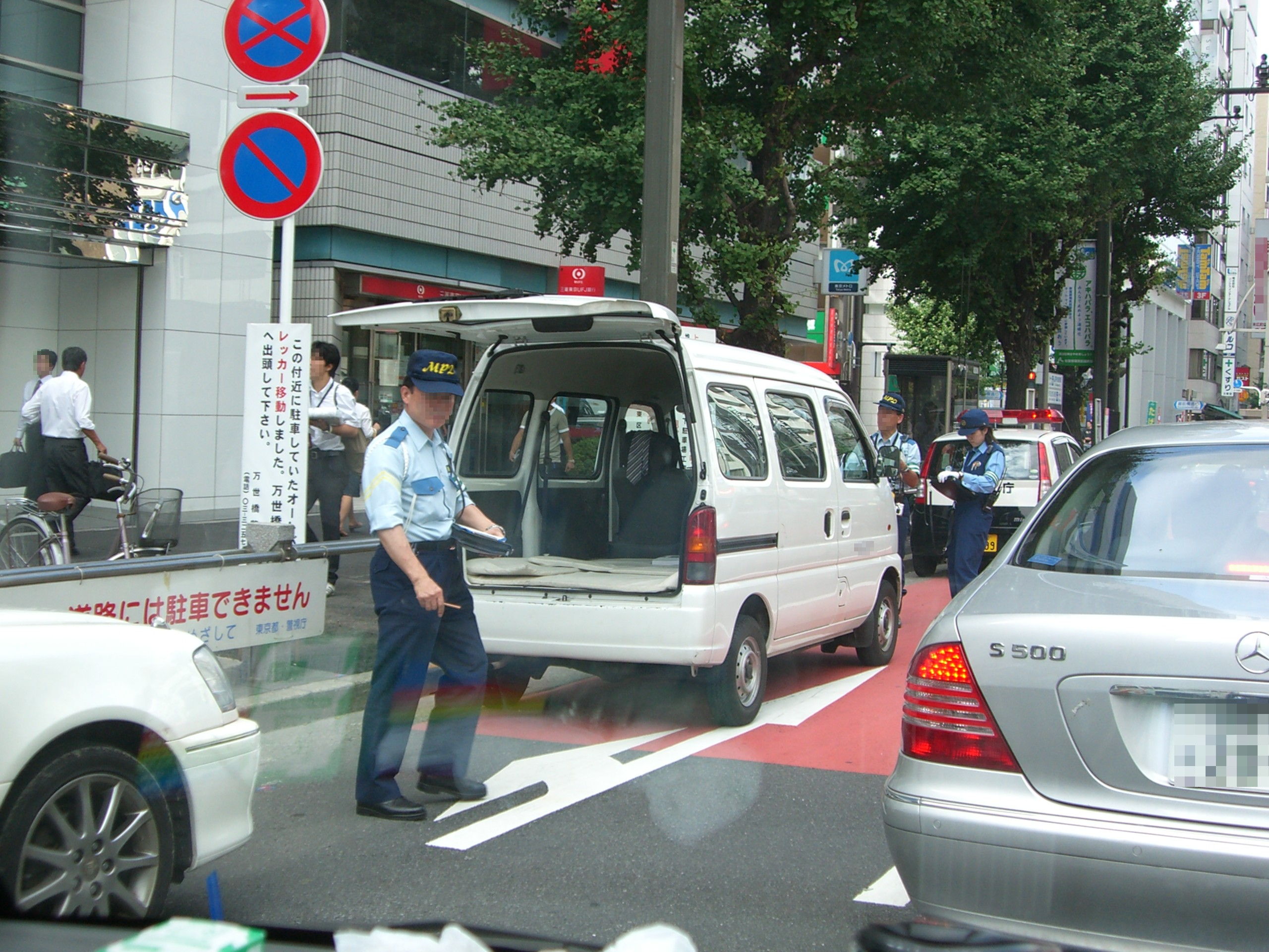 Tokyo Metropolitan Police officers are cracking down on illigal parking cars at Akihabara, Japan.